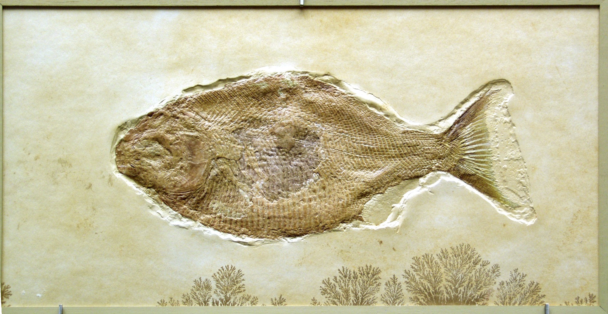 Fossil of a Mesturus verrucosus, Eichstätt. Museum für Naturkunde (Berlin).